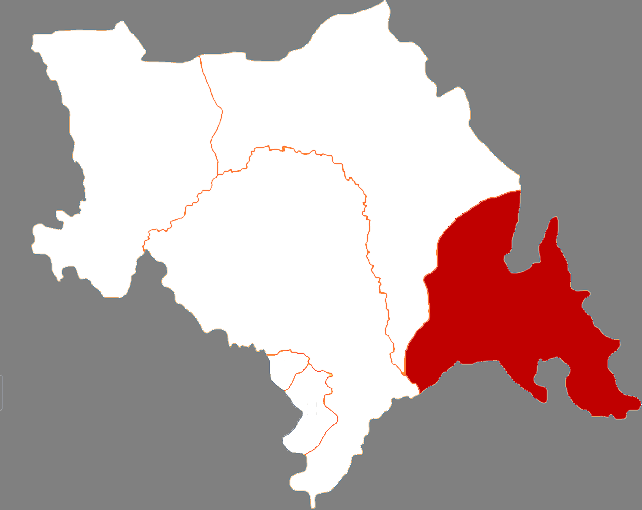 Location of Yitong manchu national county in Siping City, China